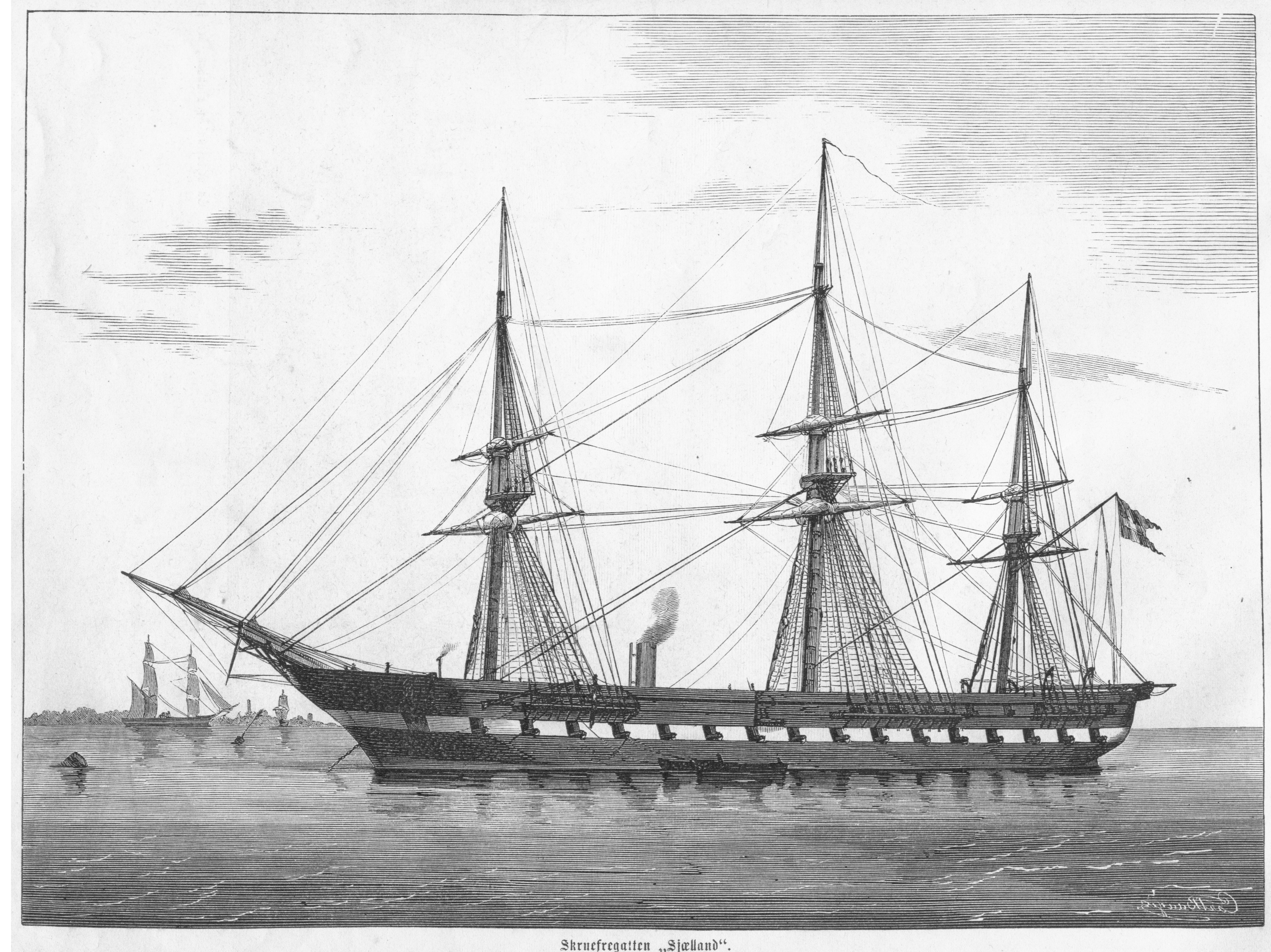 (Danish) screw frigate "Sjælland". Contemporary illustration of the 1864 German-Danish War.